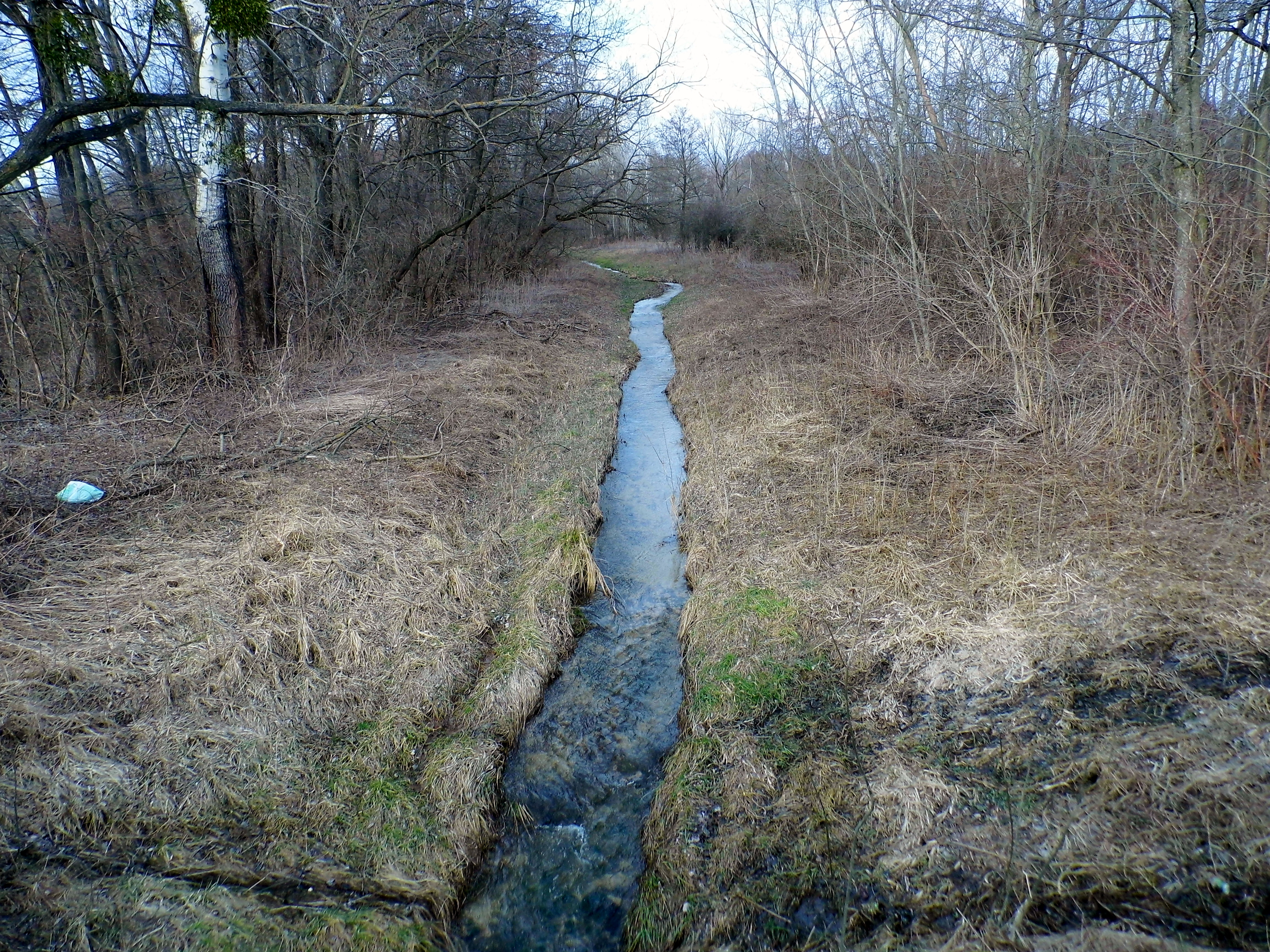 Csigere Stream in trollius field between villages Ajkarendek and Bakonygyepes, Hungary